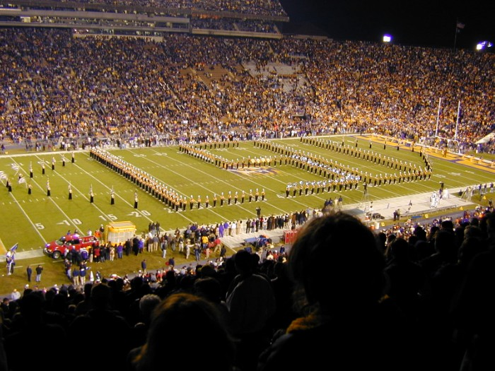 The Louisiana State University Tiger Marching Band creates its signature "LSU" formation during a pregame performance in Tiger Stadium.